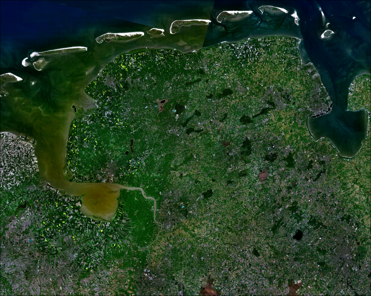 NASA World Wind - East Frisia